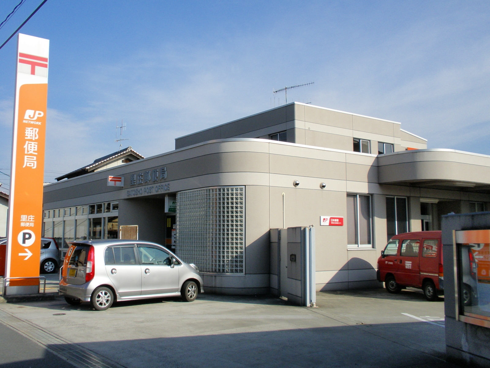 Satoshō post office, Satoshō, Okayama.